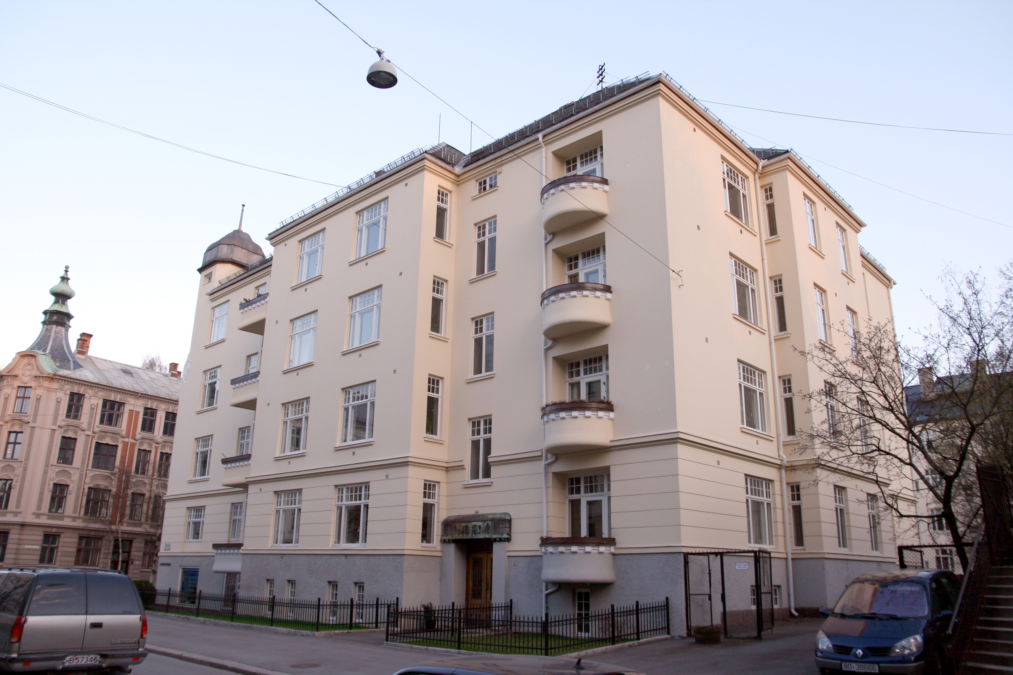 Thomas Heftyes gate 62 at Frogner in Oslo, Norway. Apartment block from 1914, arch. Syver Nielsen. Art Nouveau.